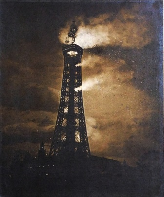 Blackpool Tower Fire 1897